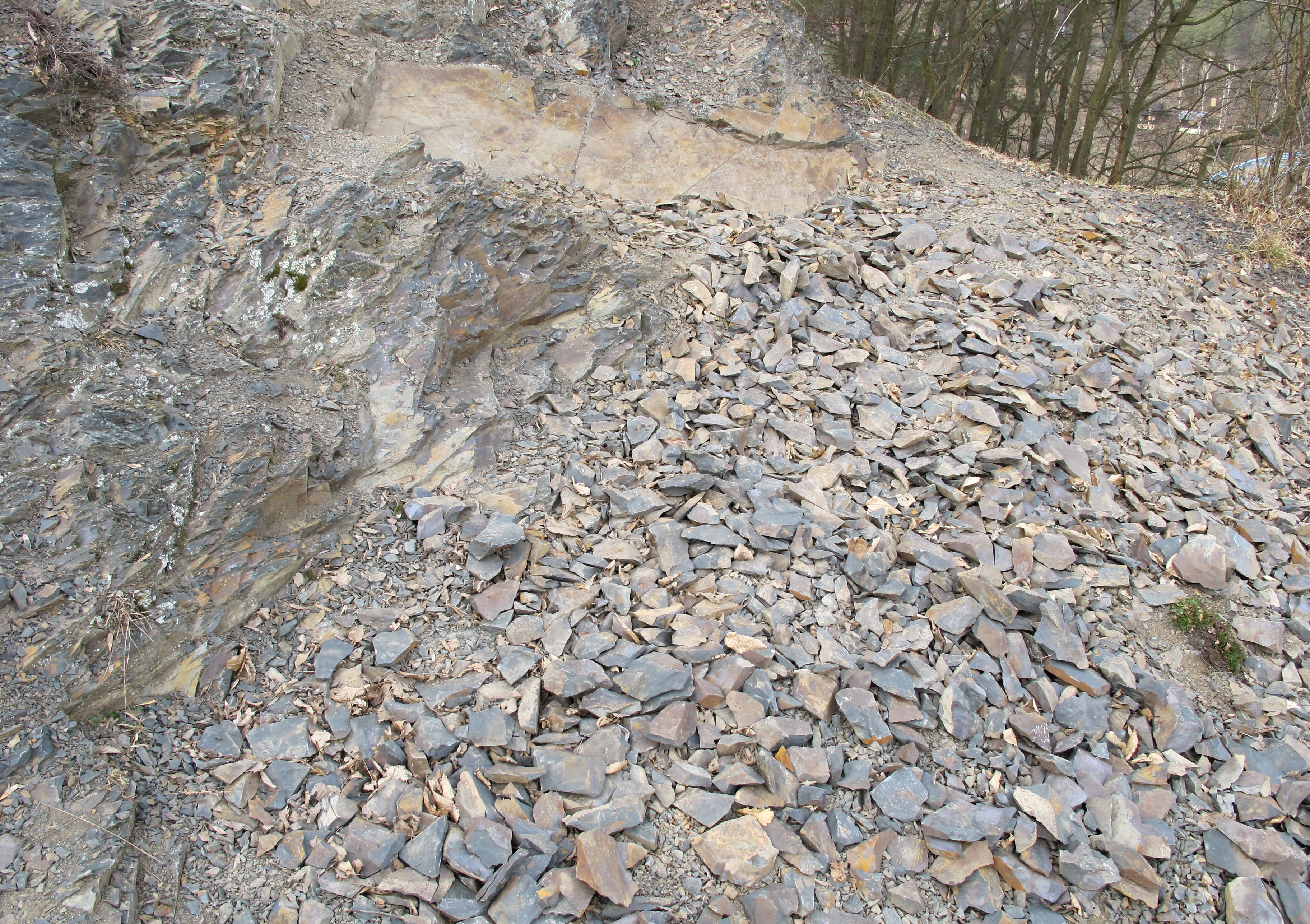 Natural monument Skryjsko-týřovické kambrium (Cambrian in Skryje-Týřovice area), near Hřebečníky, Skryje nad Berounkou and Týřovice nad Berounkou, Rakovník District in Czech Reublic